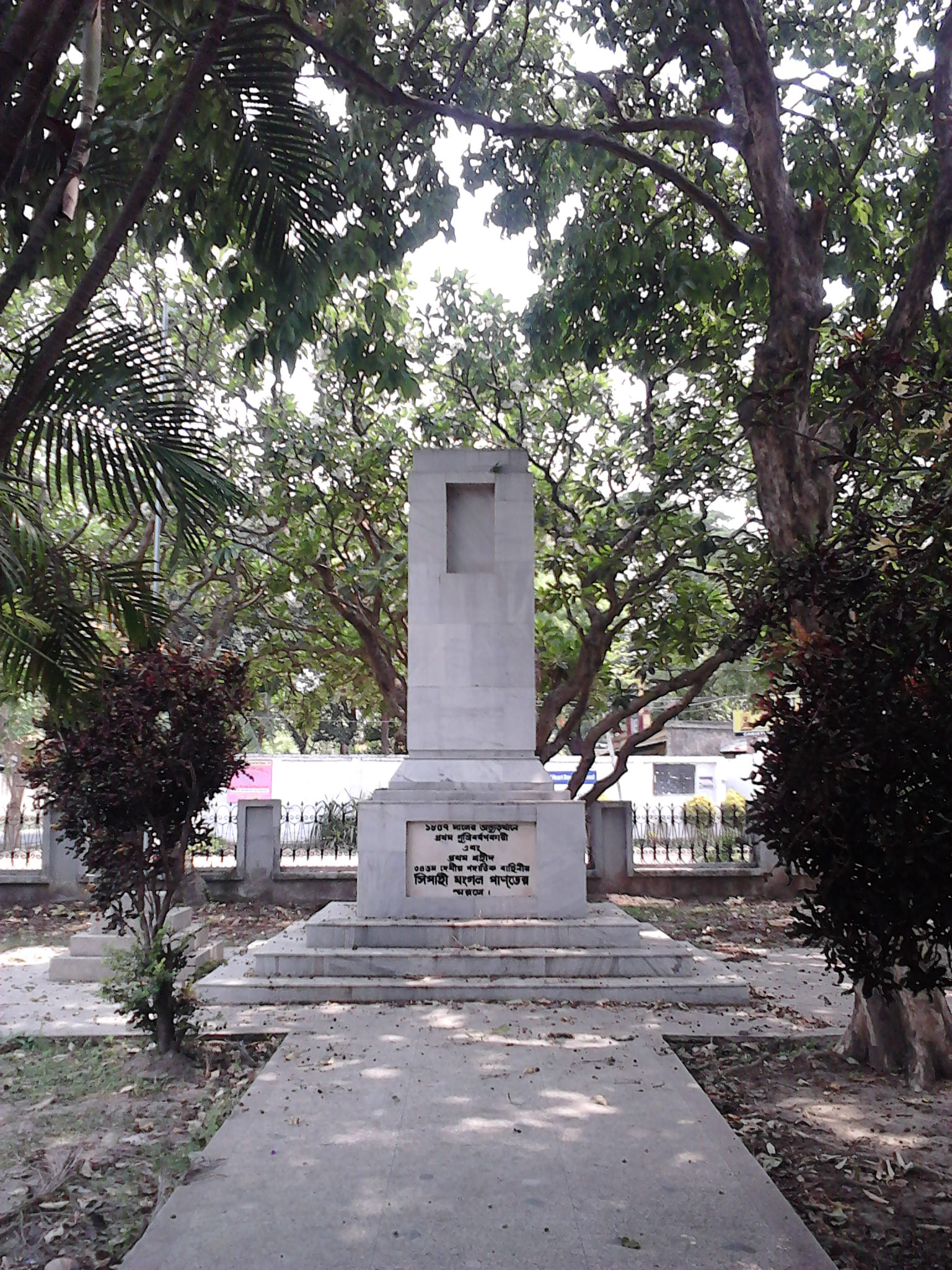 Photographed at Barrackpore Cantonment of North 24 Parganas, West bengal.